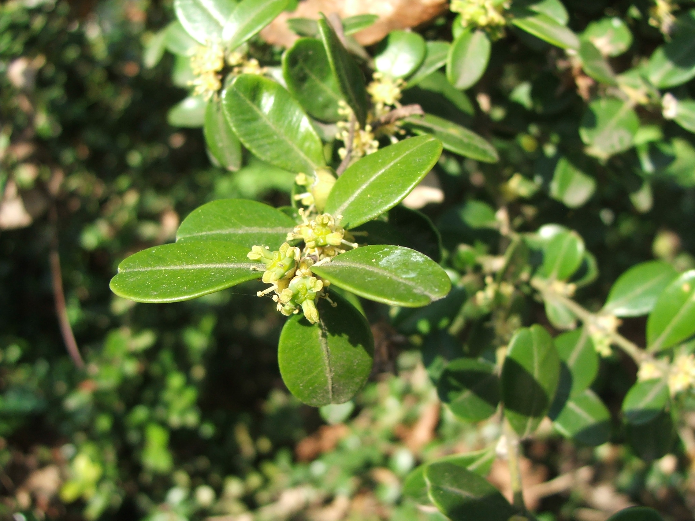 Buxus sinica - MTA Botanic Garden, Hungary